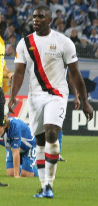 Micah Richards. Lech Poznań vs Manchester City FC, 4 November, 2010.